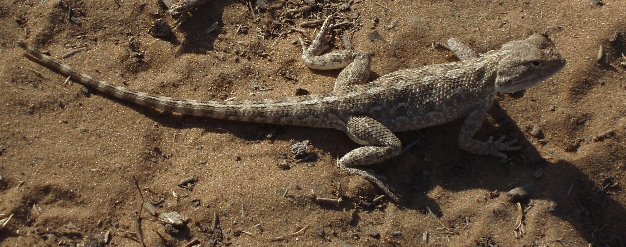 Trapelus sanguinolentus. Found between Nurota and Aydar Lake in Uzbekistan